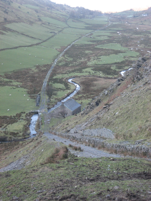 Cwm Croesor showing the trackbed of the Croesor Tramway